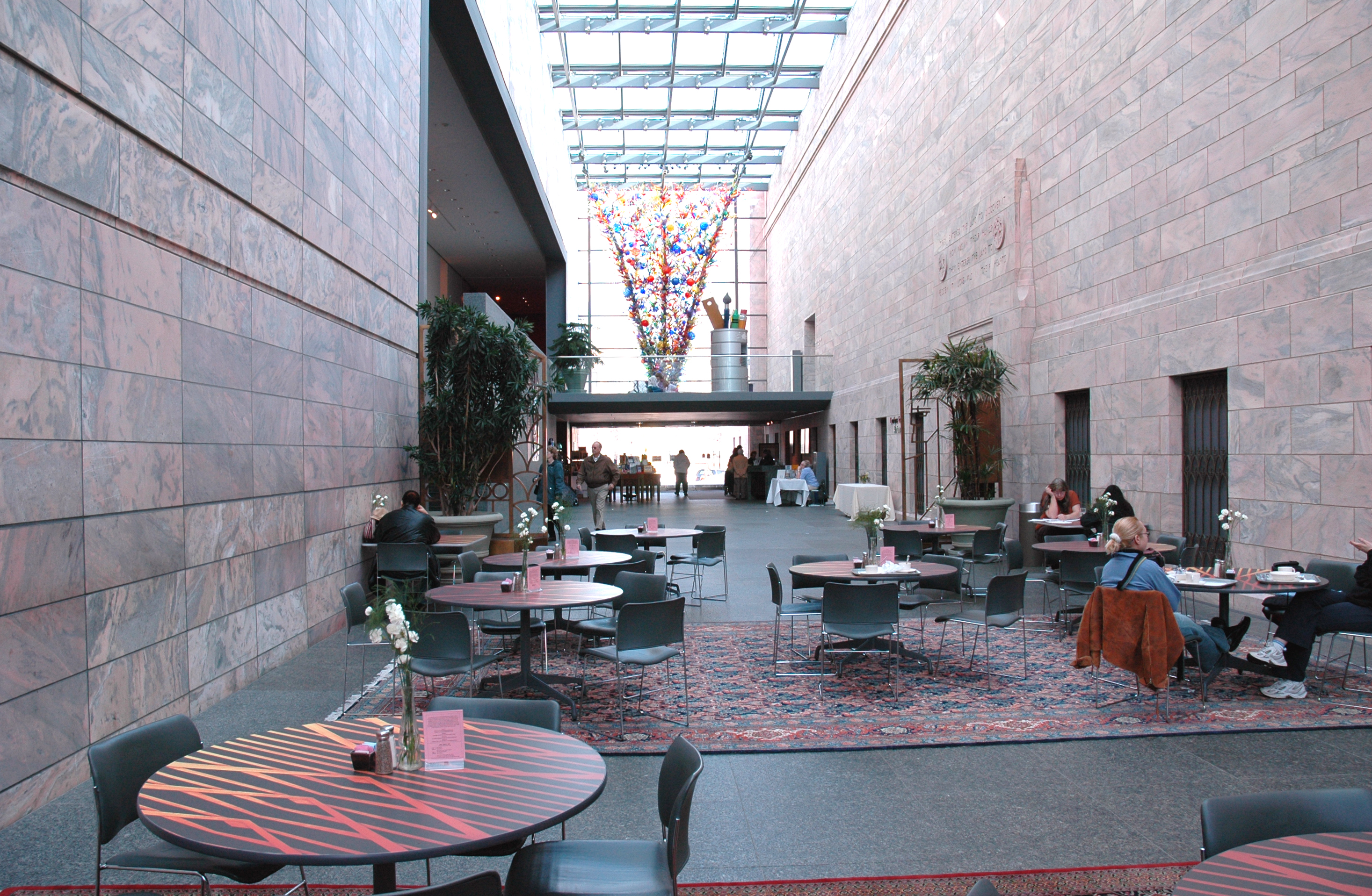 The atrium of Joslyn Art Museum in Omaha, Nebraska, looking north from the cafe; Dale Chihuly's Inside and Out is visible against the far window